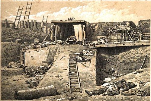 Interior of the North Fort. After the occupation of the North Taku Forts by British and French forces. Shown from the angle where the British Forces entered.